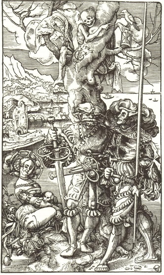 Swiss Mercenary and prostitute, 1524